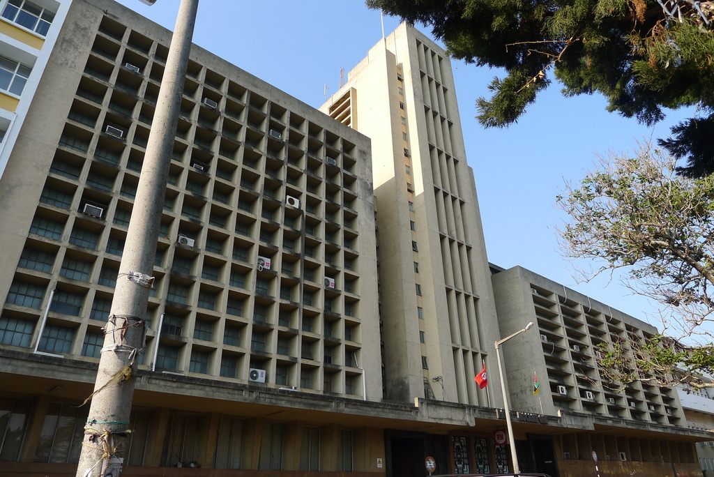 Rádio Moçambique building in Maputo, Mozambique